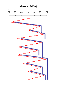 Rainflow analysis for tensile peaks. This figure is the work of and copyright property of Anthony Cutler who has released it into the public domain.